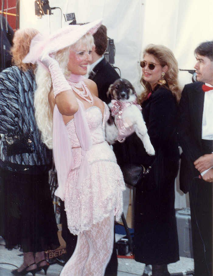 Photo taken at the 62nd Academy Awards 3/26/90